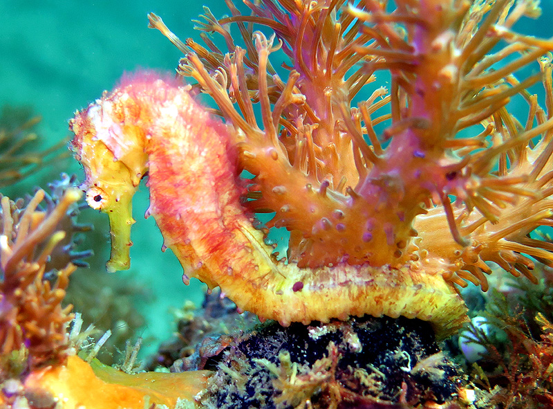 hippocampus